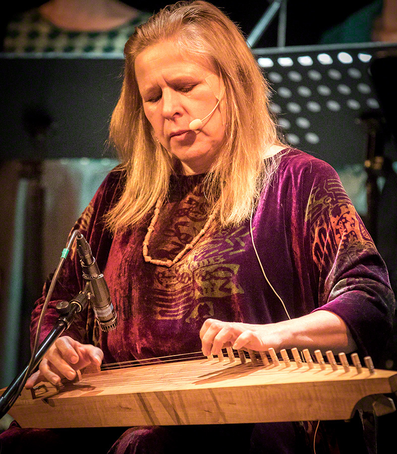 Sinikka Langeland at the stage of Cosmopolite. The concert took place on 19. October 2016 in Oslo. Lineup:Sinikka Langeland (kantele)Trio Mediaeval (vocal)Arve Henriksen (trumpet)Trygve Seim (saxophone)Anders Jormin (double bass)Markku Ounaskari (drums)Trio Mediaeval is: Anna Maria Friman (vocal)Linn Andrea Fuglseth (vocal)Torunn Østrem Ossum (vocal)